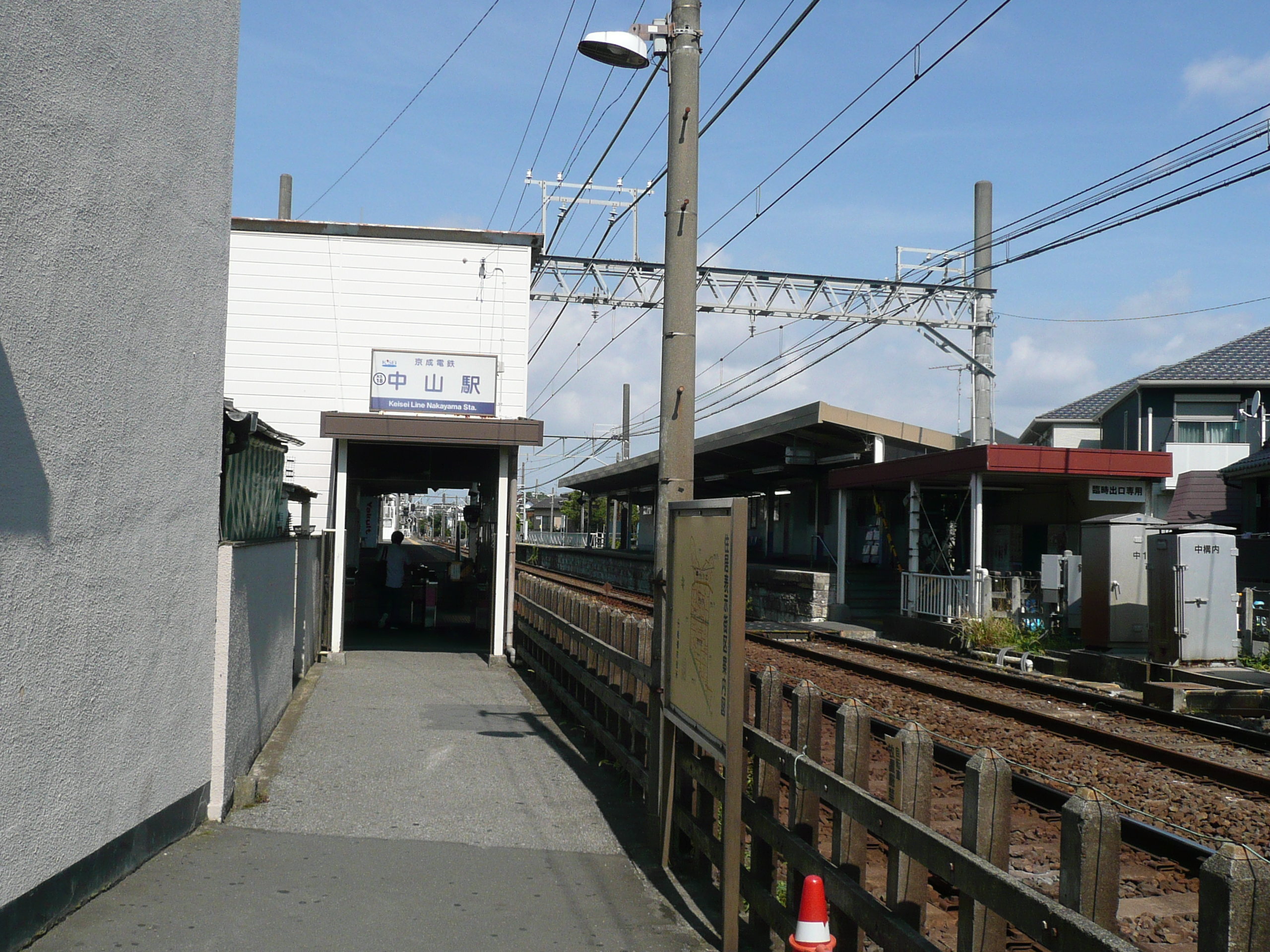 Keisei Nakayama Station